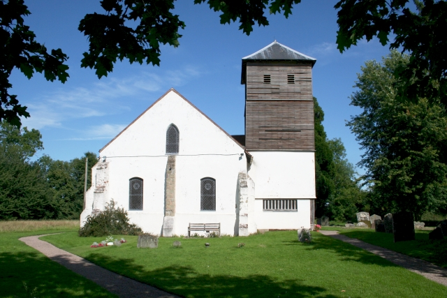 St. Leonard's parish church, Cotheridge, Worcestershire, seen from the west